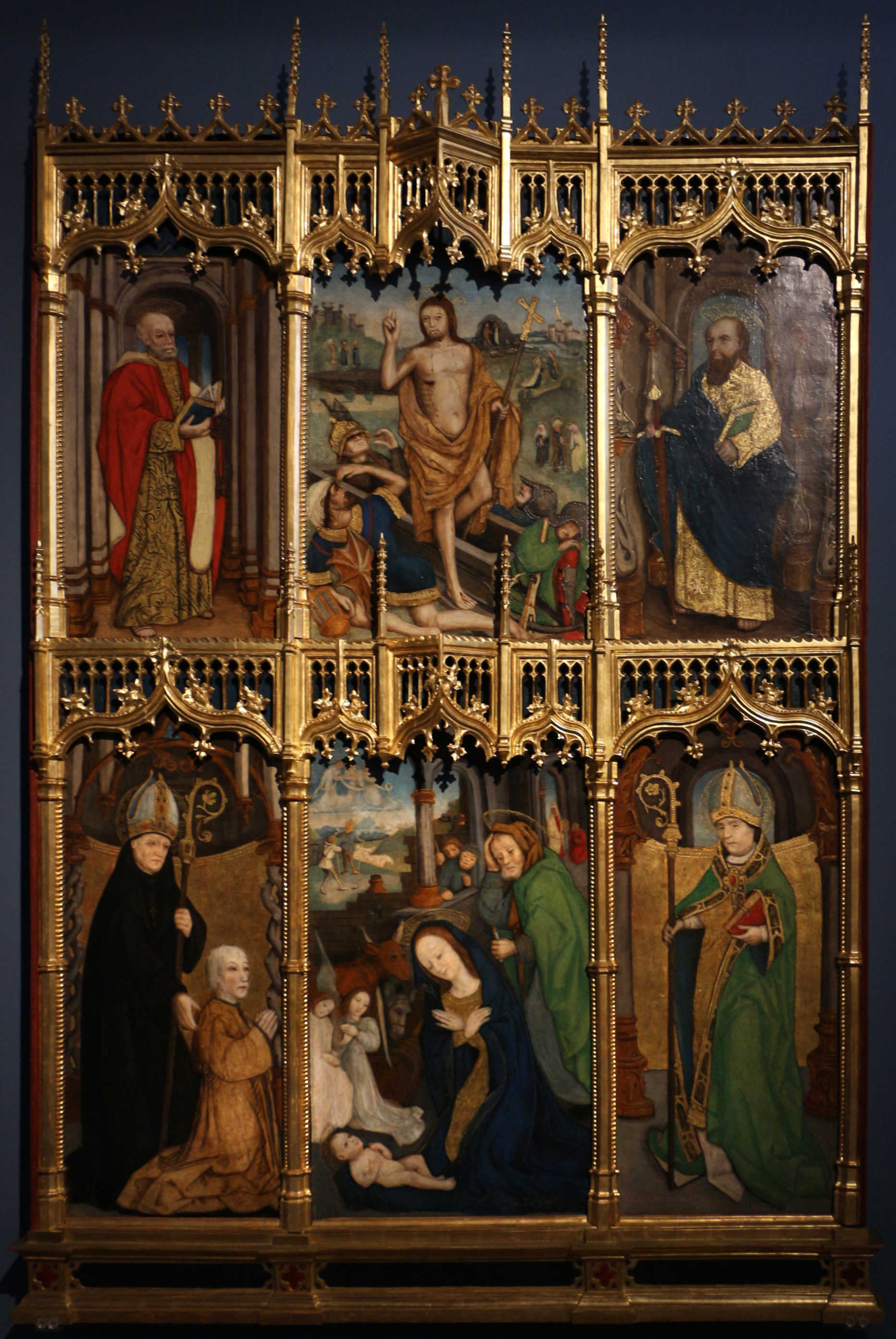 Restituzioni 2016